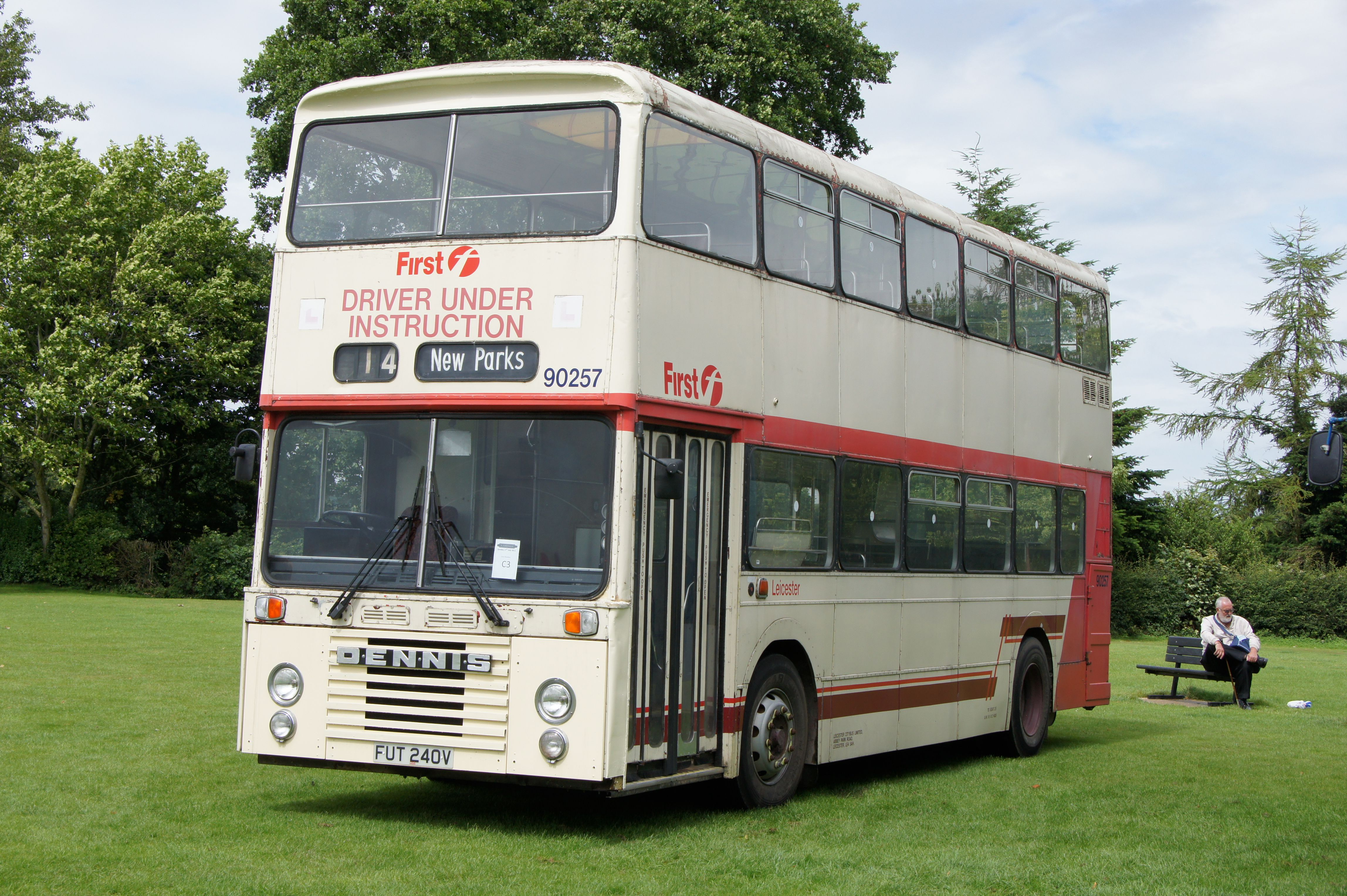 FUT240V-1 170711 CPS